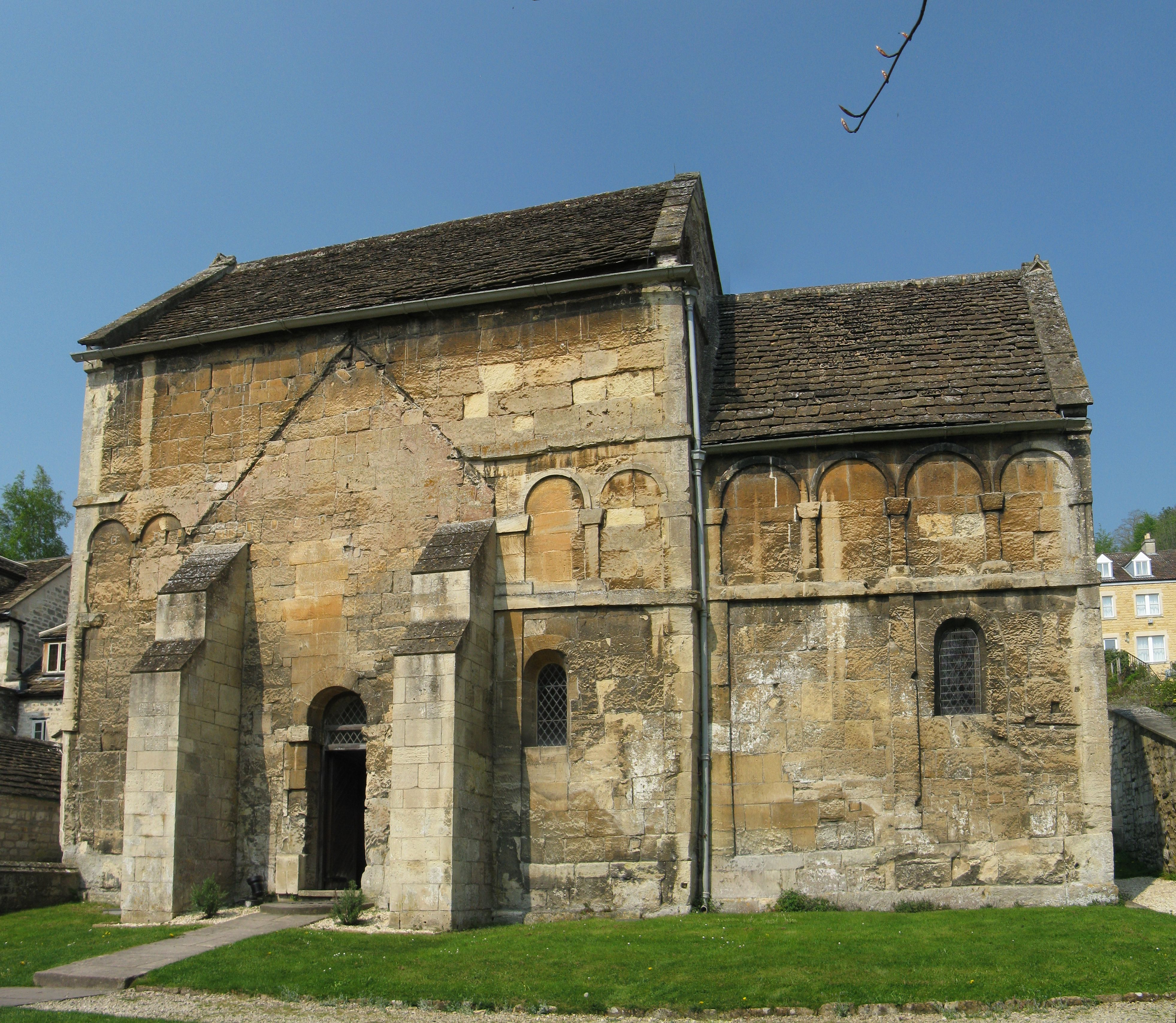 Saxon church, Bradford on Avon